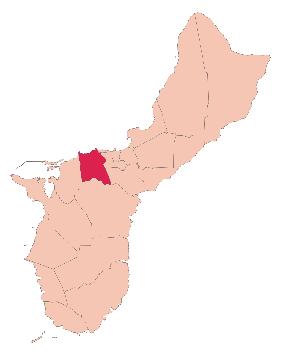 Municipalities of Guam: Asan-Maina